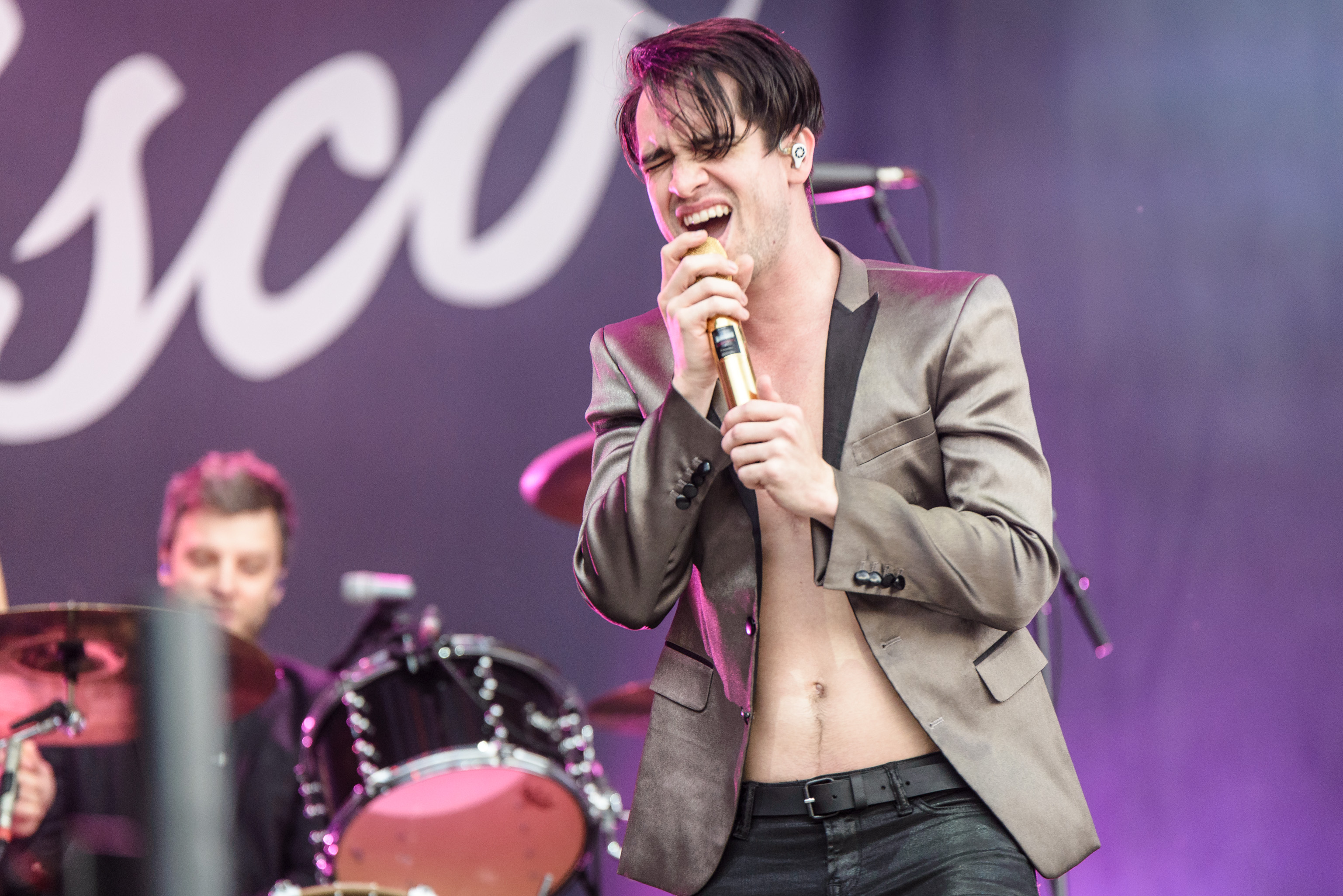 Panic! at the Disco @ Rock im Park 2016